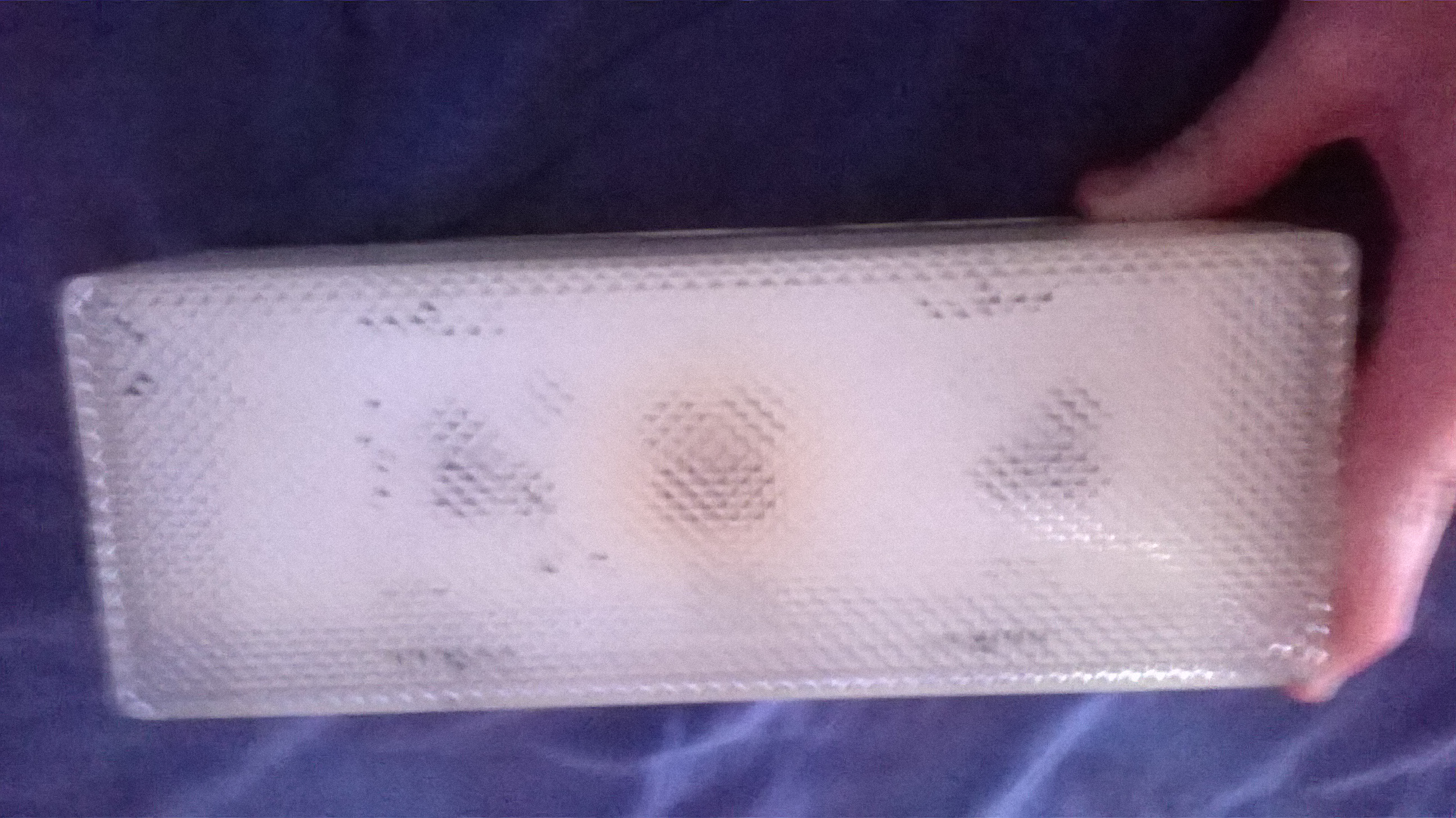 Older Saft/Ura Autonomous Security Lighting Bloc using old incandescent lamps.